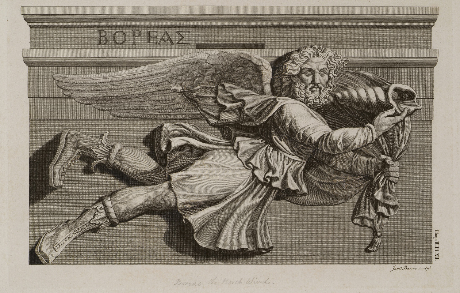 James Stuart & Nicholas Revett. The Antiquities of Athens measured and delineated by James Stuart F.R.S. and F.S.A. and Nicholas Revett Painters and Αrchitects, vol. III (ed. Willey Reveley), London, John Nichols, 1794